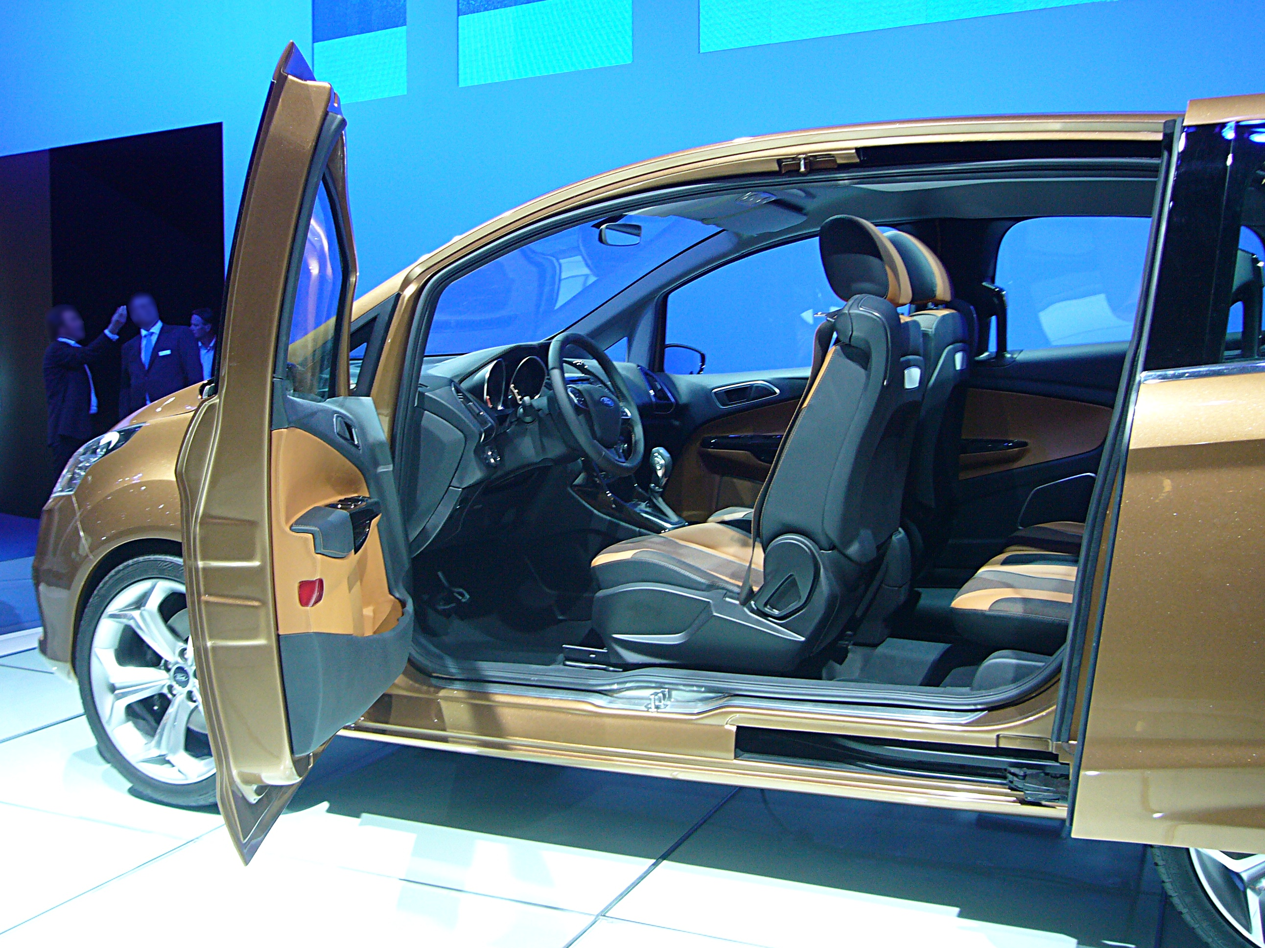 Ford B-MAX Concept at AutoRAI Amsterdam 2011